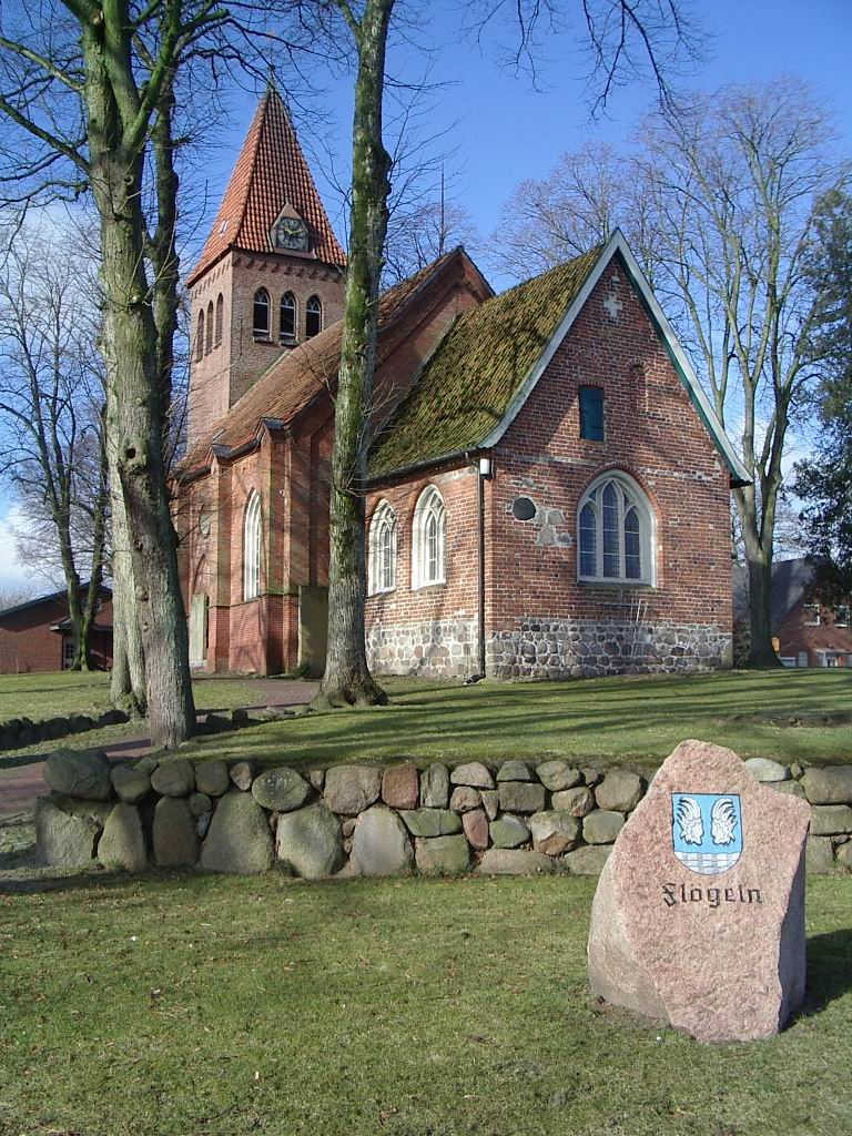 The Evangelical Lutheran St. Paul's Church in Flögeln, Lower Saxony, Germany. Photo taken by User:Geoz January 2006